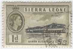 QEII Stamp